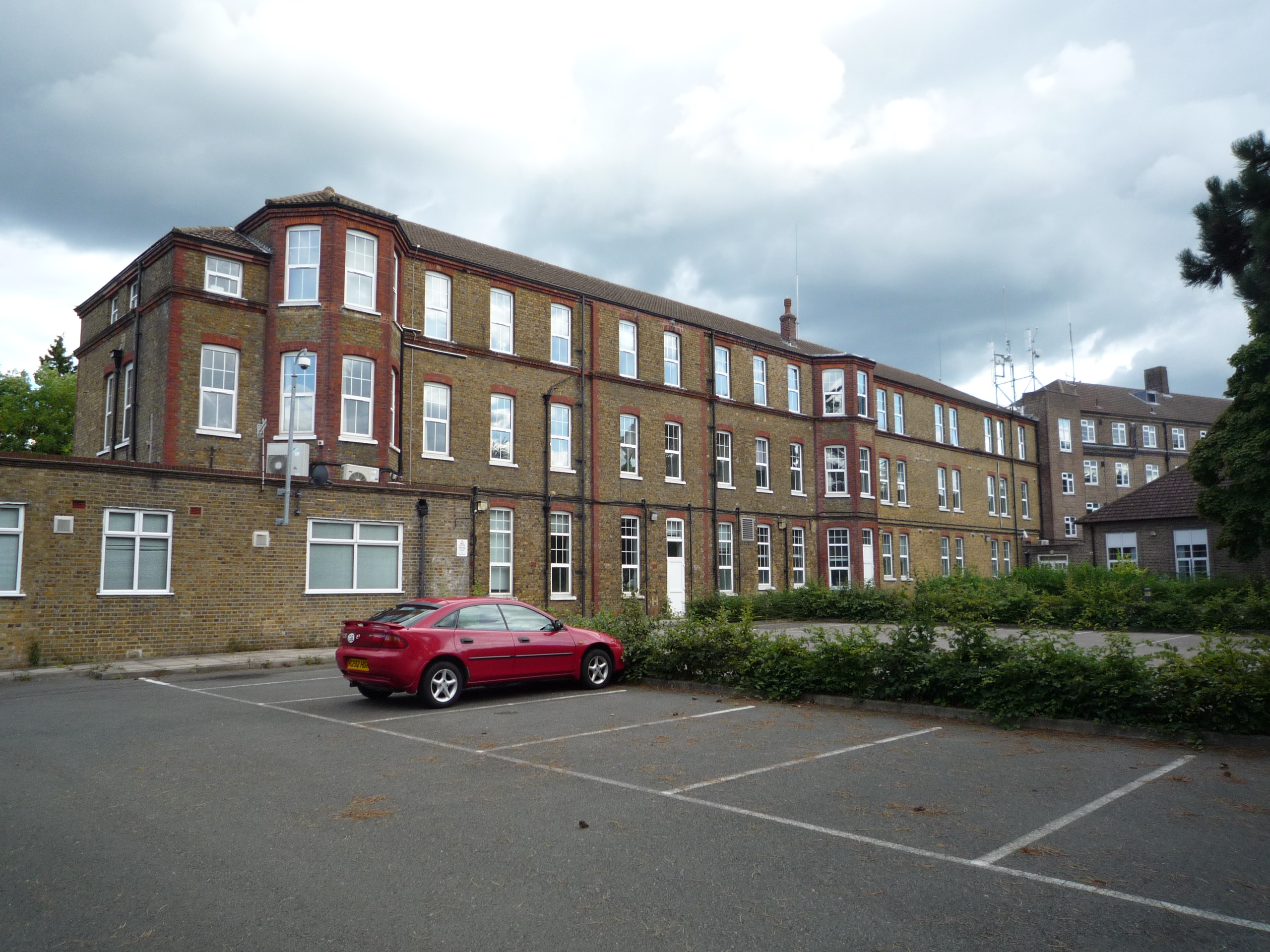 All that remains of Saint Lawrence's Hospital, Caterham on the Hill, Surrey, England. Opened in 1870 as Caterham Asylum (page at AIM25). The greater part of the site has now been redeveloped for housing. This building, now called Oaklands House is offices for NHS Direct in Kent, Surrey and Sussex [1]. The Surrey and Borders Partnership NHS Foundation Trust operates a number of small units on the site for people with learning disabilities [2].